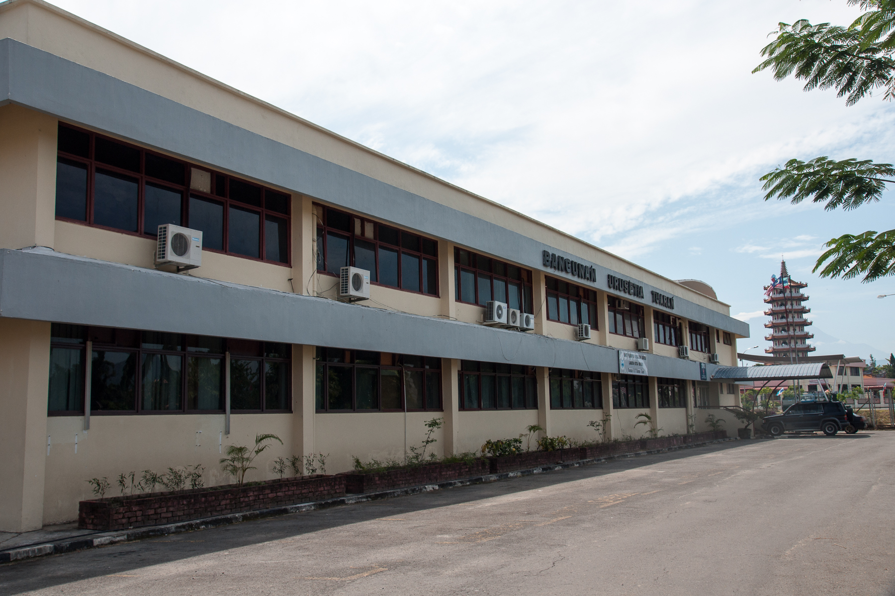 District Office Tuaran (Pejabat Daerah Tuaran)